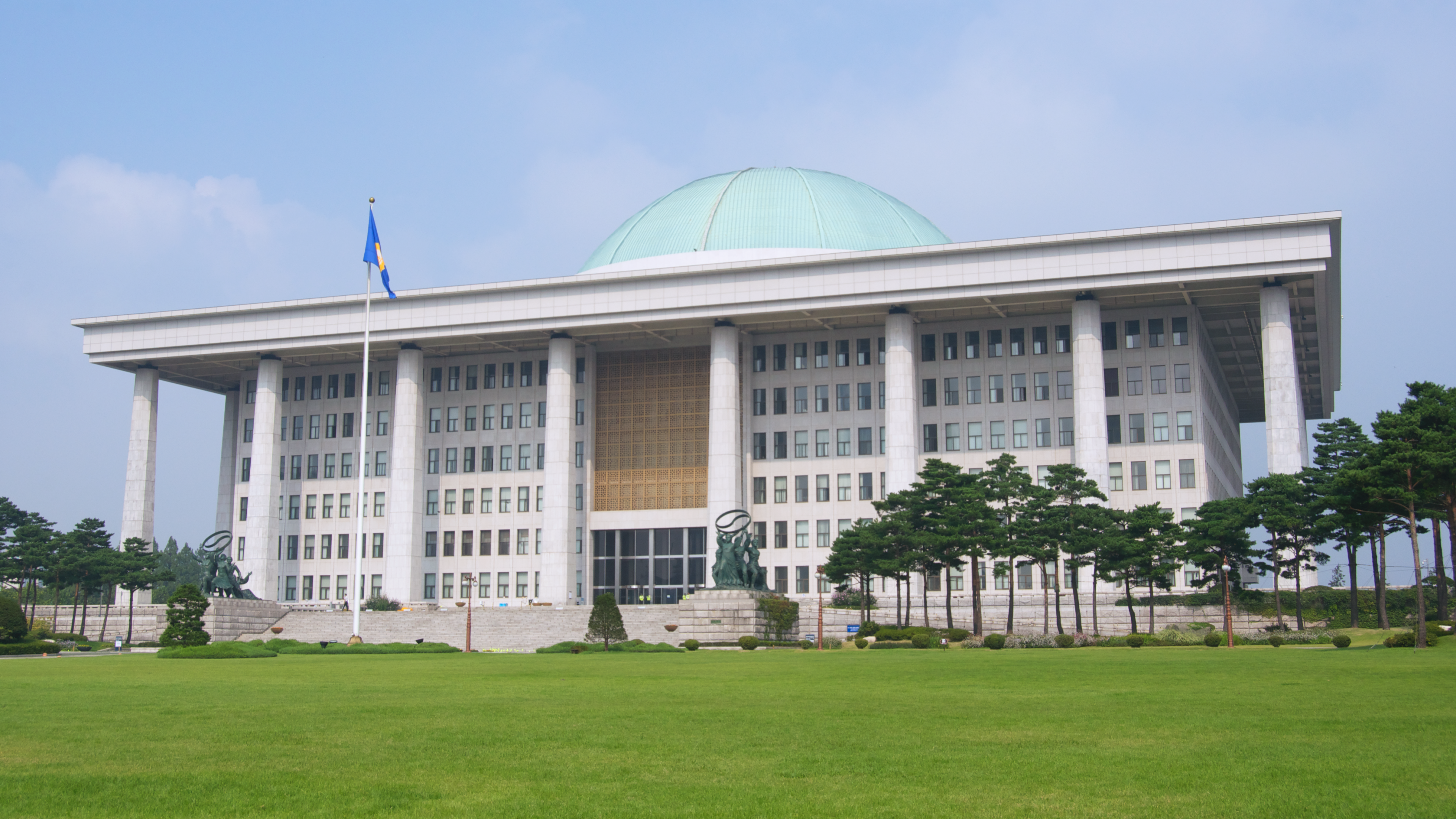 Own work; National Assembly Building of the Republic of Korea. Taken on 8 September 2014 with a Nikon d90.